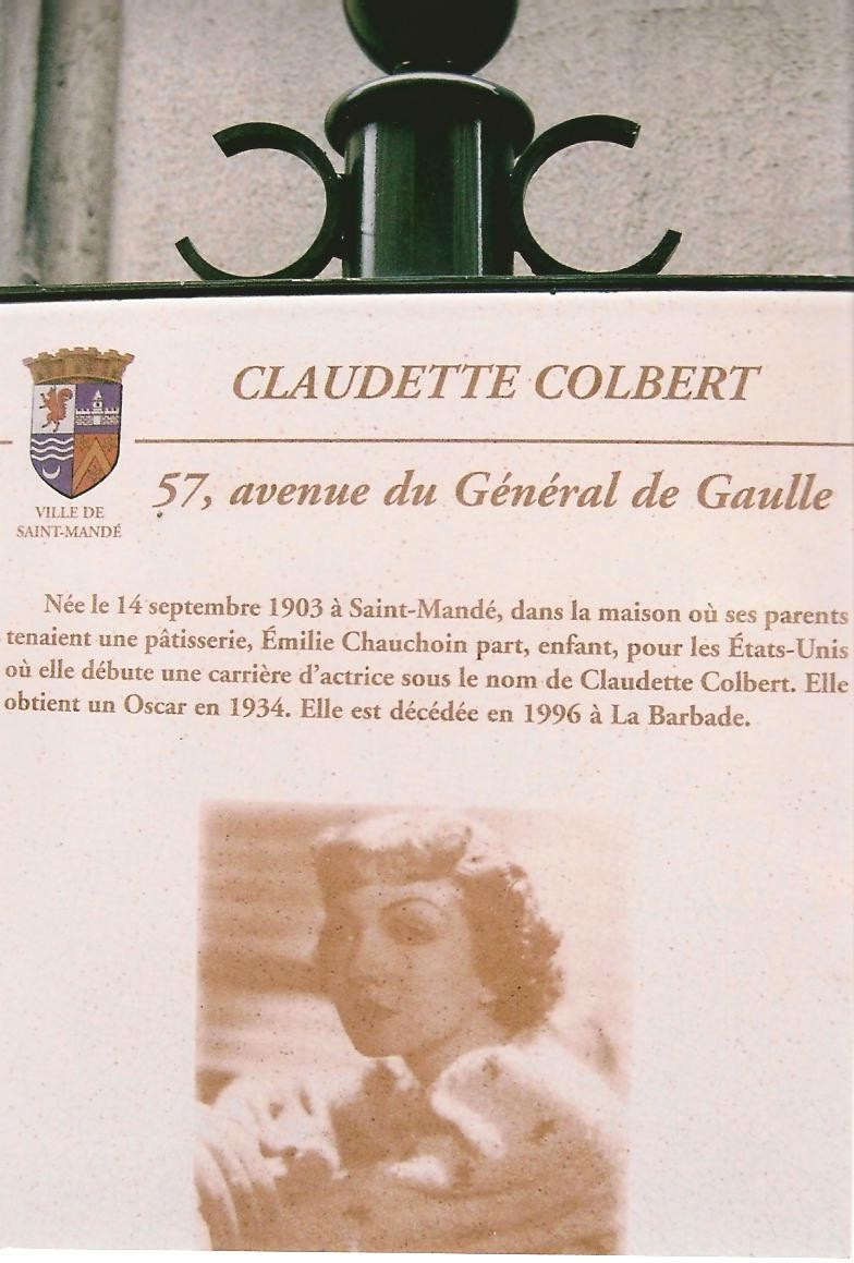 Commemorative plate on Claudette Colbert's birthplace in Saint-Mandé, France.